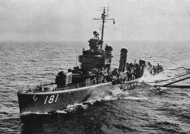 The Japanese destroyer JMSDF Asakaze (DD-181) refueling from the U.S. Navy aircraft carrier USS Shangri-La (CVA-38) in 1959. The Shangri-La was deployed to the Western Pacific from 9 March to 3 October 1959. Asakaze had been commissioned in 1941 as USS Ellyson (DD-454). She was decommissioned 19 October 1954, and transferred to the Japanese Government 20 October 1954 under the Mutual Defense Assistance Program. She served in the Japan Maritime Self-Defense Force until 1970 when the ship was returned to the United States, and was sold to Taiwan, where she was cannibalized for spare parts.